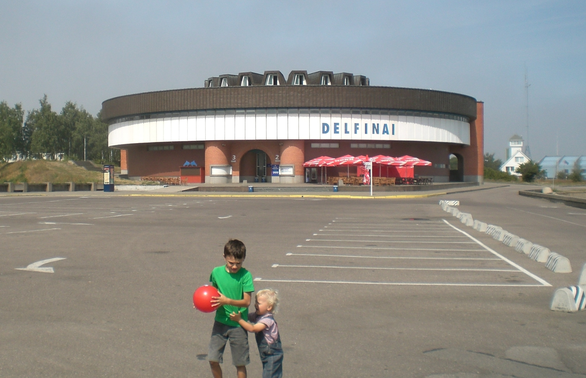 The dolphinarium in the National Sea Museum of Lithuania in Klaipėda-Kopgalis, Lithuania